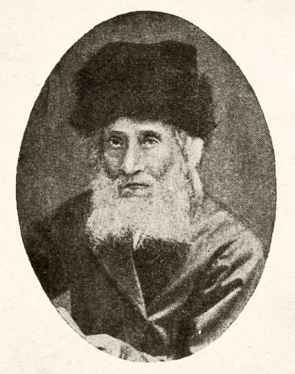 Picture of R' Yisachar Dov Tornheim